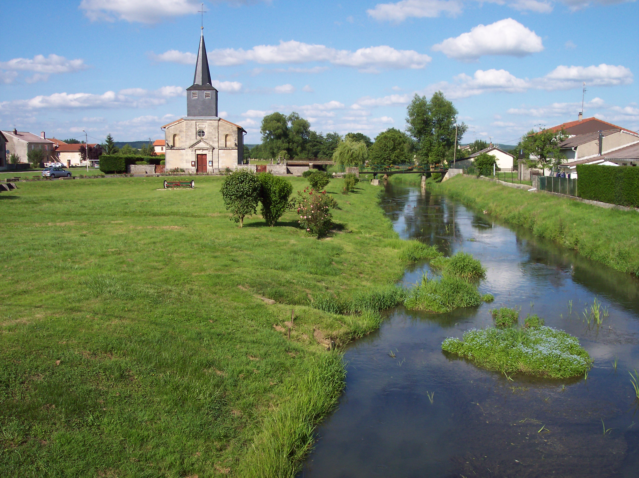 View on the church of Wiseppe and on Wiseppe river, Wiseppe, Meuse (département), Lorraine, France.